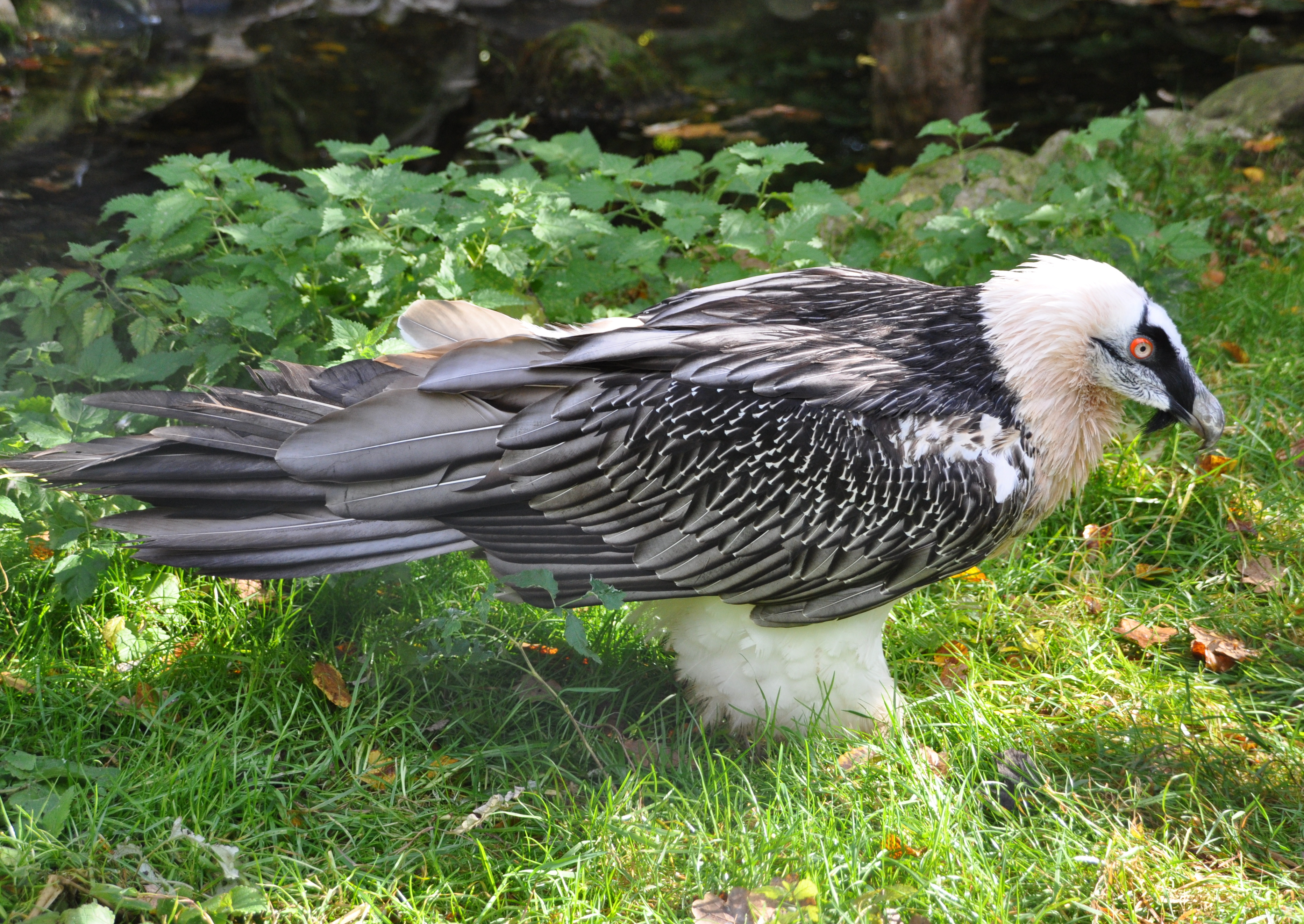 Bearded Vulture (Gypaetus barbatus) in the Walsrode Bird Park, Germany.